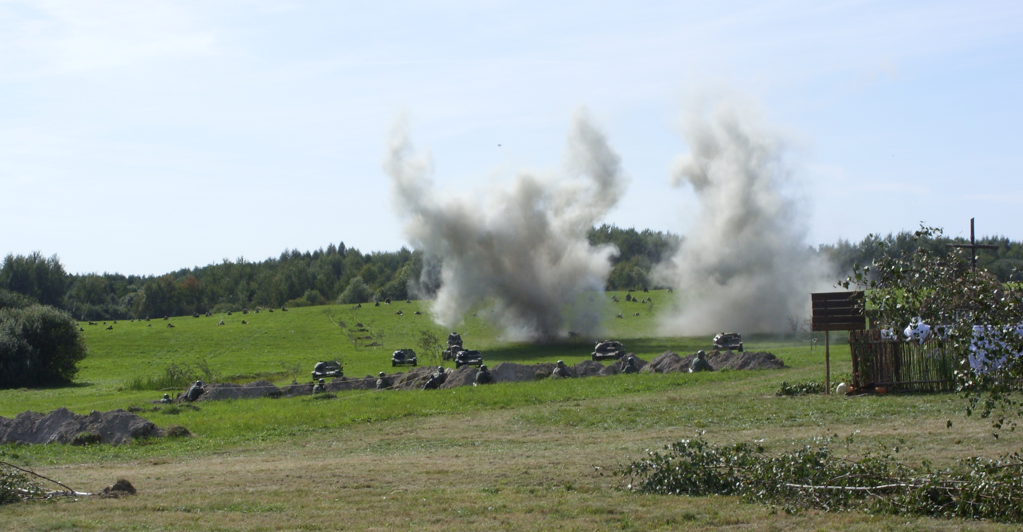 Battle of Tomaszów Lubelski 1939. Poland. Defense War of Poland 1939 against Nazi Germany. The Warsaw Tank-Motor Brigade and Polish infantry versus Nazi Germany occupying Polish villages and cities. Reenactment.